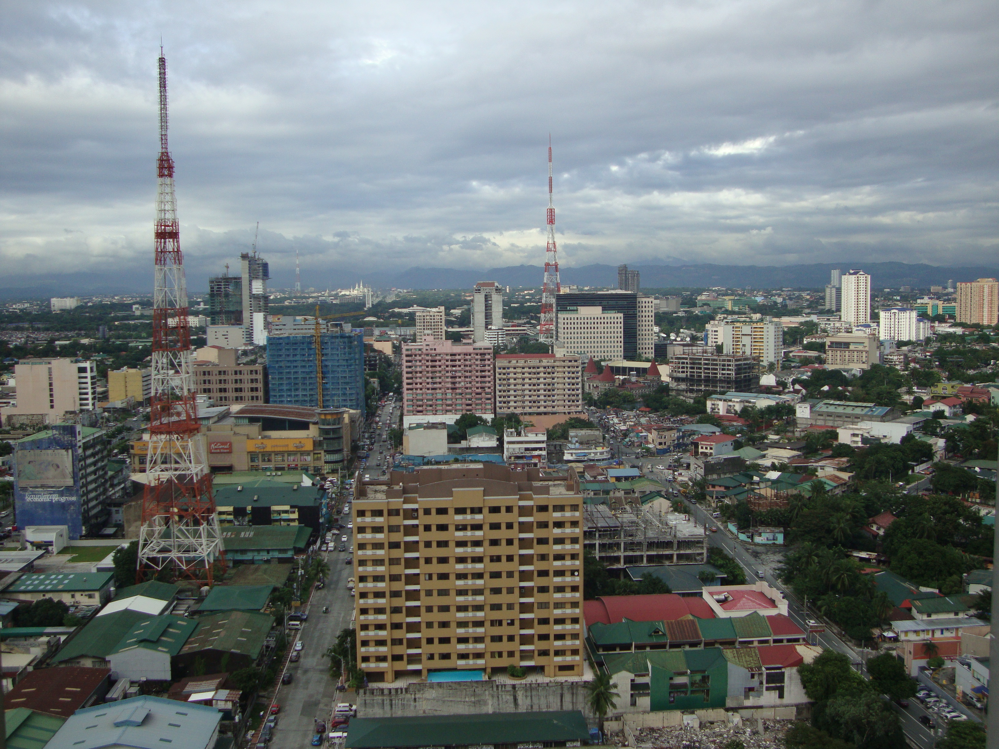 Aerial shot of South Triangle, Quezon City